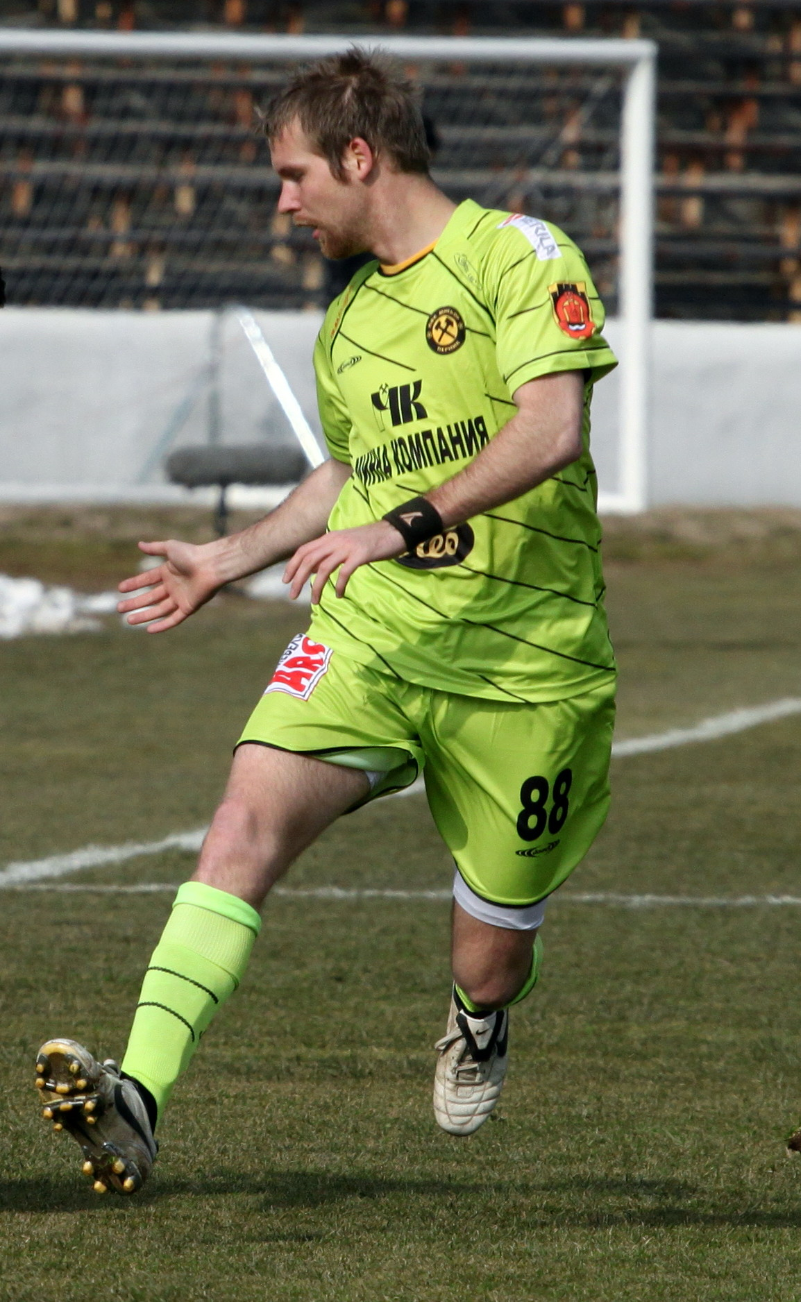 Tomáš Okleštěk (born 21 February 1987) is a Czech football player who plays for Bulgarian A PFG side Minyor Pernik. He made his debut in Bulgaria on 27.2.2011